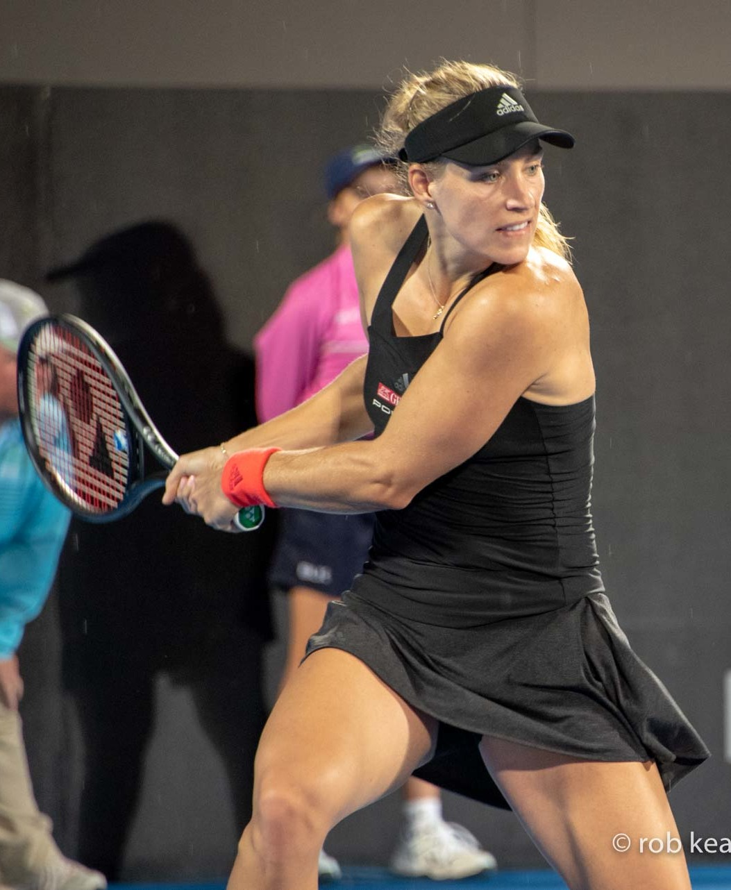 Sydney, Australia - 8 January 2018: Angelique Kerber hits a backhand against Camila Giorgi during their round two encounter at the Sydney International tennis. (Photo by Rob Keating/robiciatennis.com)